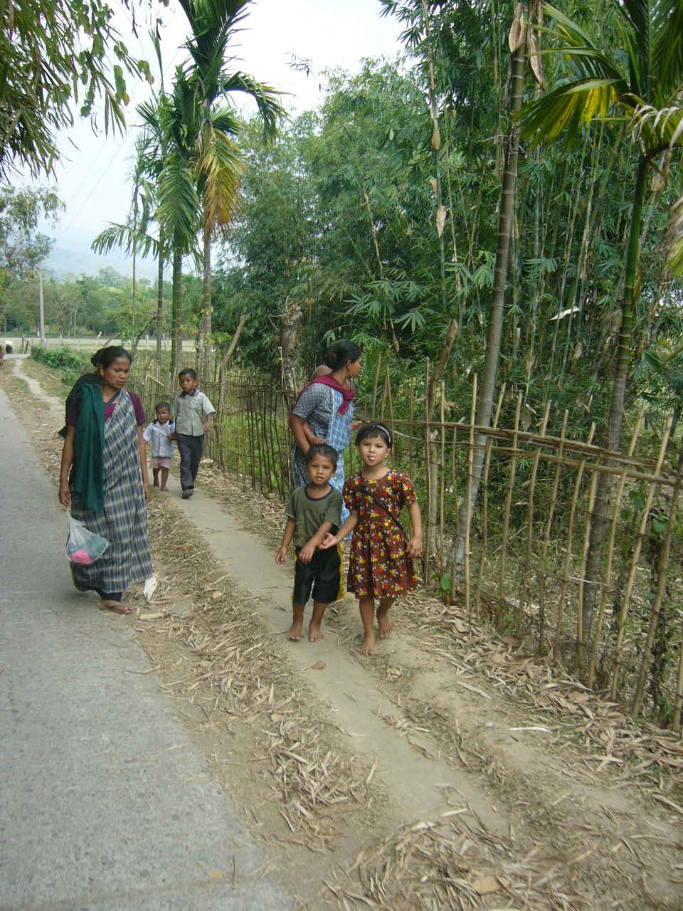 Khasia People in Jaflong Sylhet Bangladesh